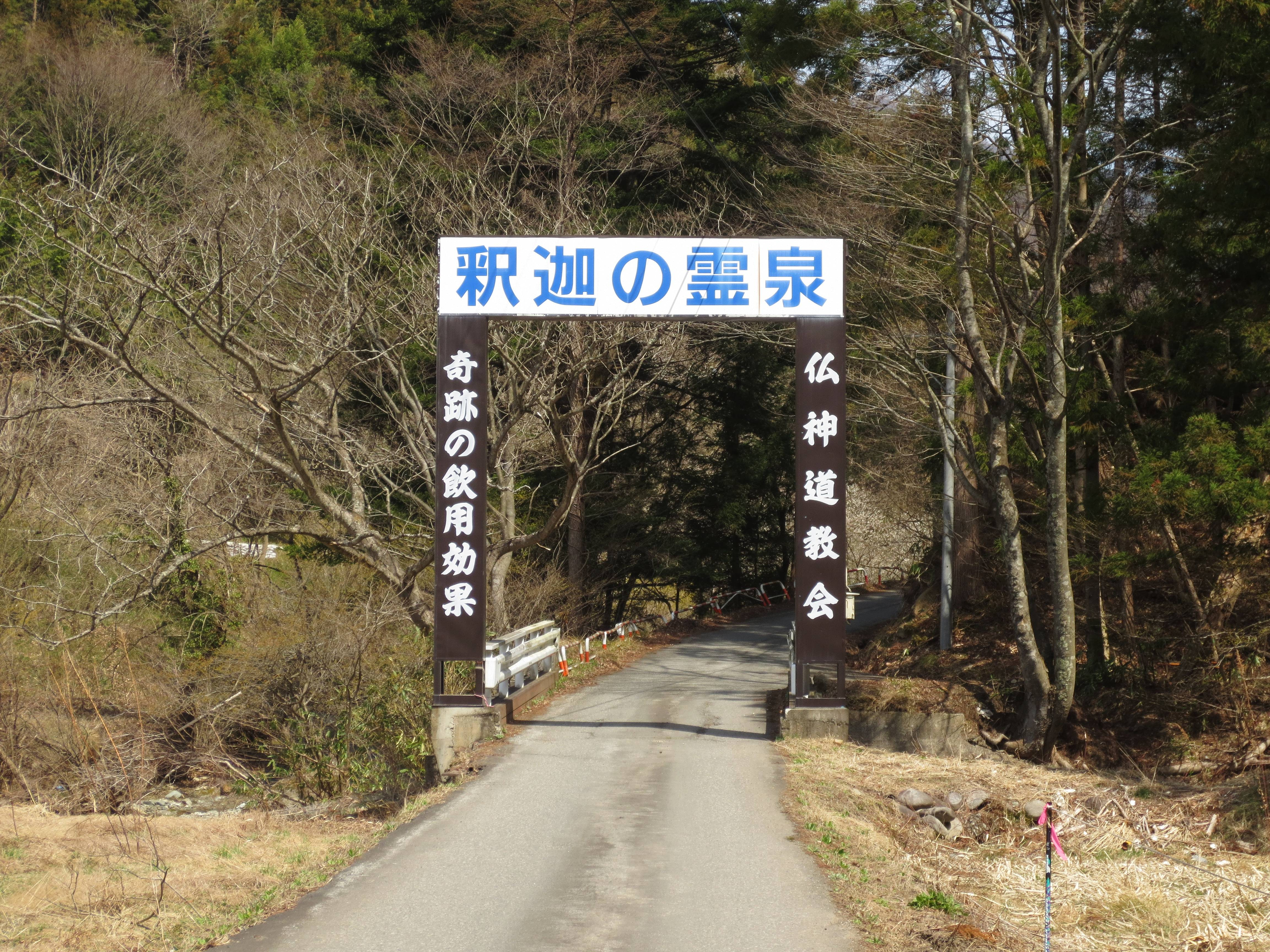 Namezawa Onsen.